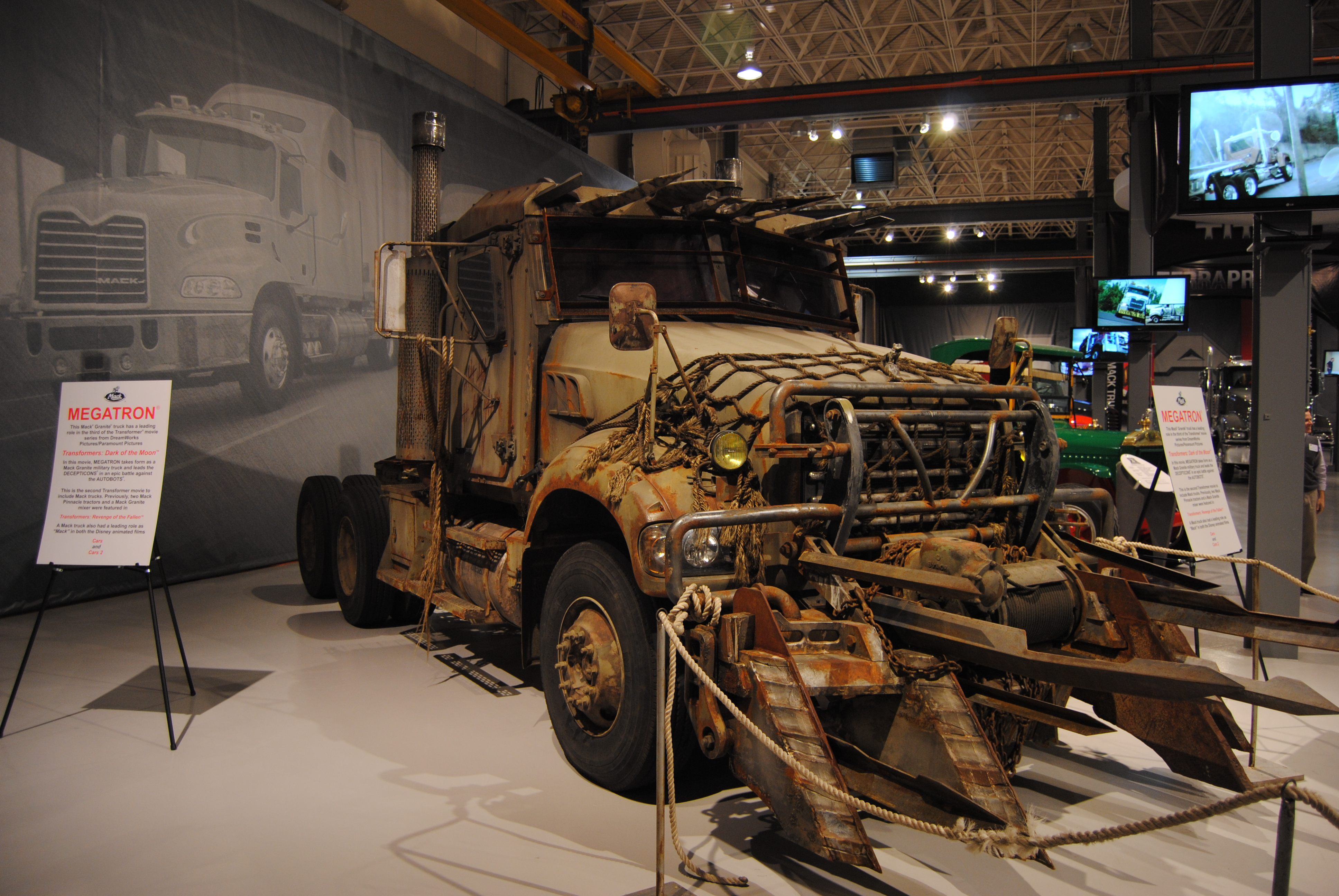 This Mack truck was used as Megatron in the film "Transformers 3" Mack Truck Historical Museum, Allentown, Pennsylvania